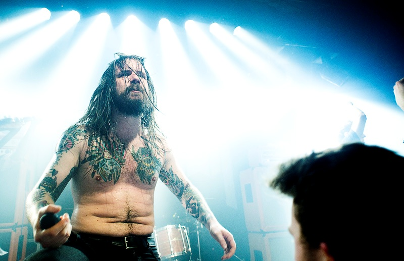 Kvelertak Erlend Hjelvik (Vocals/Singer) Picture taken at a concert in Ancienne Belgique Brussels